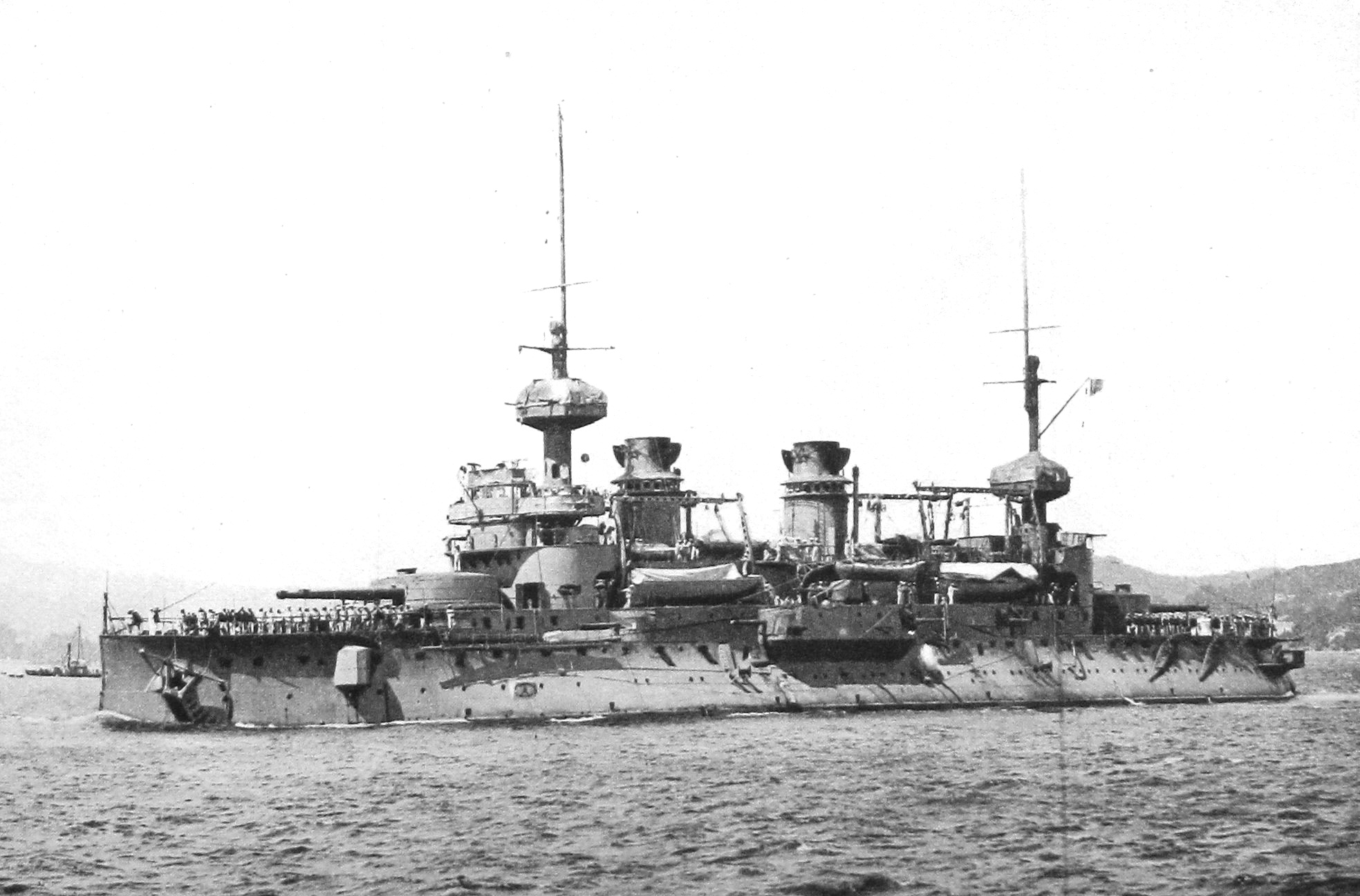 French ironclad Charlemagne